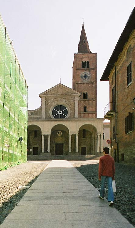 Facade and campanile of the Romanesque cathedral of Acqui Terme in the province of Alessandria, Piemonte, Italy. The loggia dates from the seventeenth century. (Olympus OM-4.)